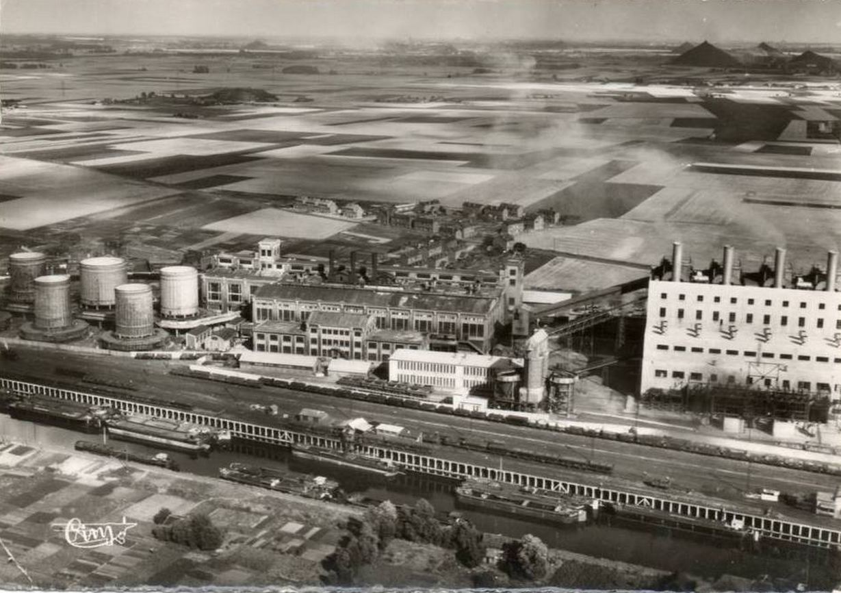 Compagnie des mines de Courrières, France.